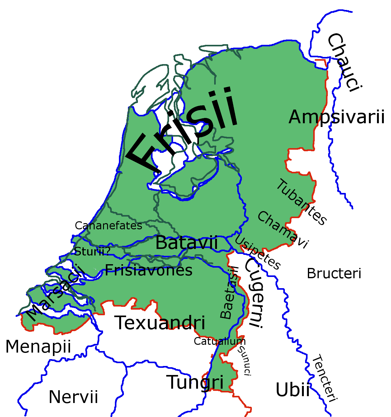 This shows the rough positions of tribes known from Roman sources